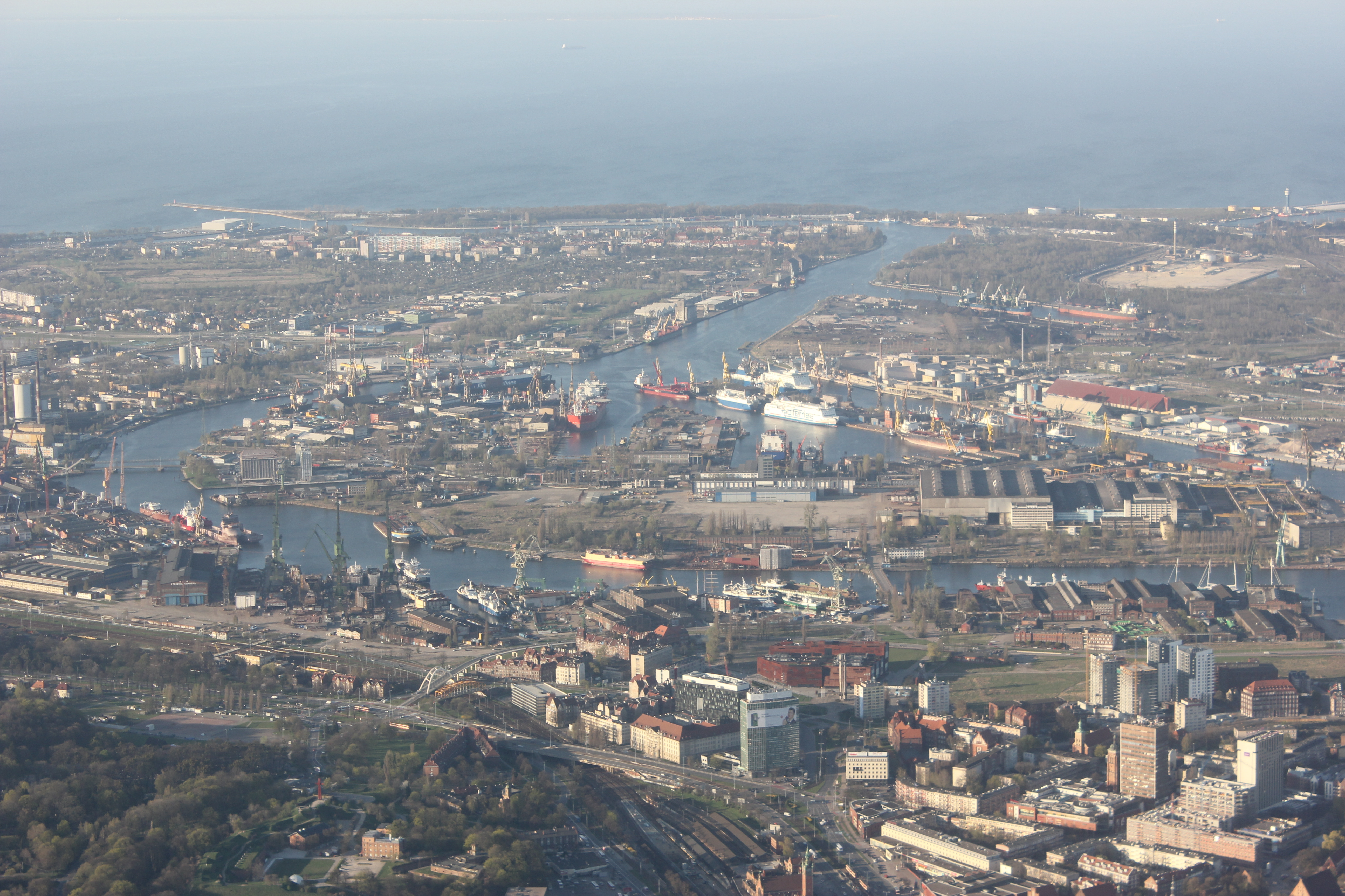 Gdańsk - port and shipyards